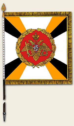 Standard of Chief of the General Staff of Russia